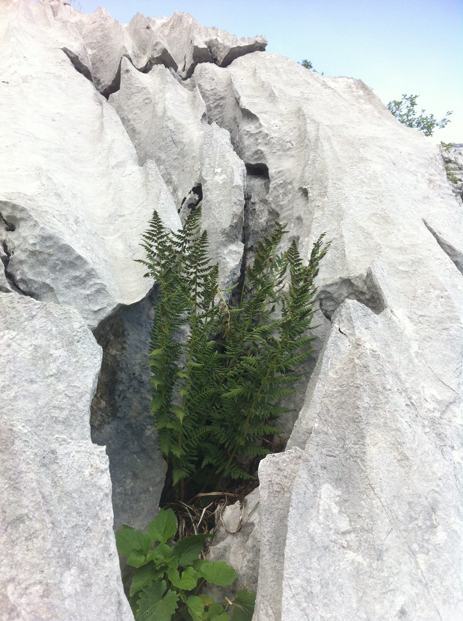 Dryopteris villarii (Dryopteridaceae), Schrattenfluh, Canton of Lucerne, Switzerland